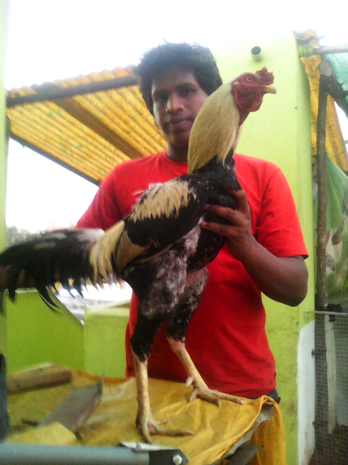 java breed asil